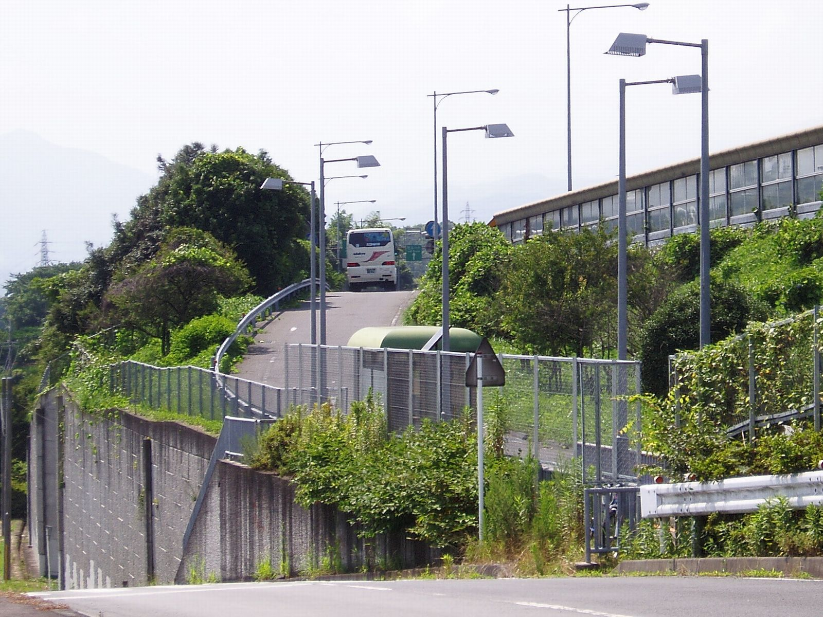 Tomei Ooi Bus Stop for Nagoya